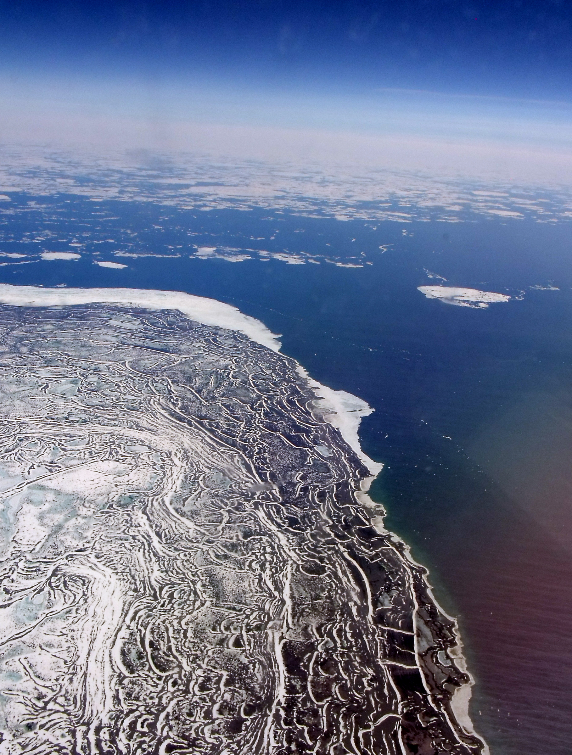 Some of the raised beaches of Southampton Island, Nunavut from above where this scrambled landform extends a long ways inland from present-day coastline. Much of the Arctic is still !! rebounding from the removal of the last continental ice-sheet. Throughout the past 10,000 years, the local tide was just enough to rework (but not erase) each and every emergent strand line. Today's aerial skein of snow-enhanced strand lines courtesy of the spring thaw. Taken thru the window on a northern airline.